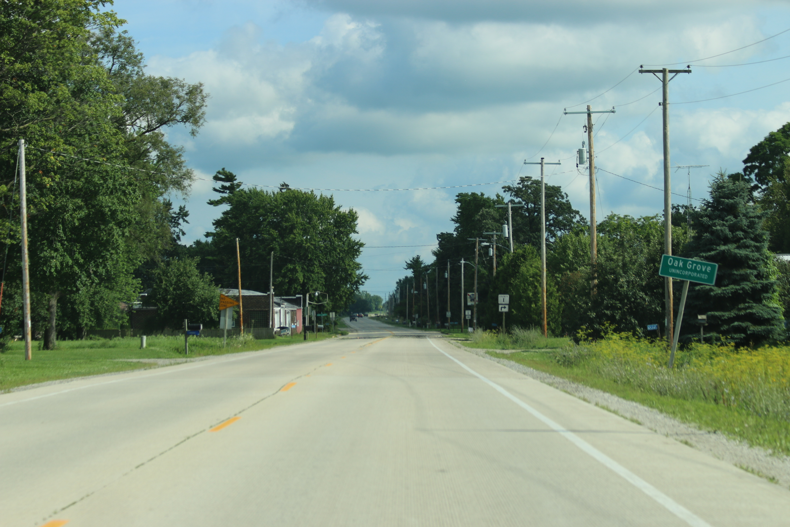 The sign for Oak Grove, Wisconsin in Dodge County on CTH A.